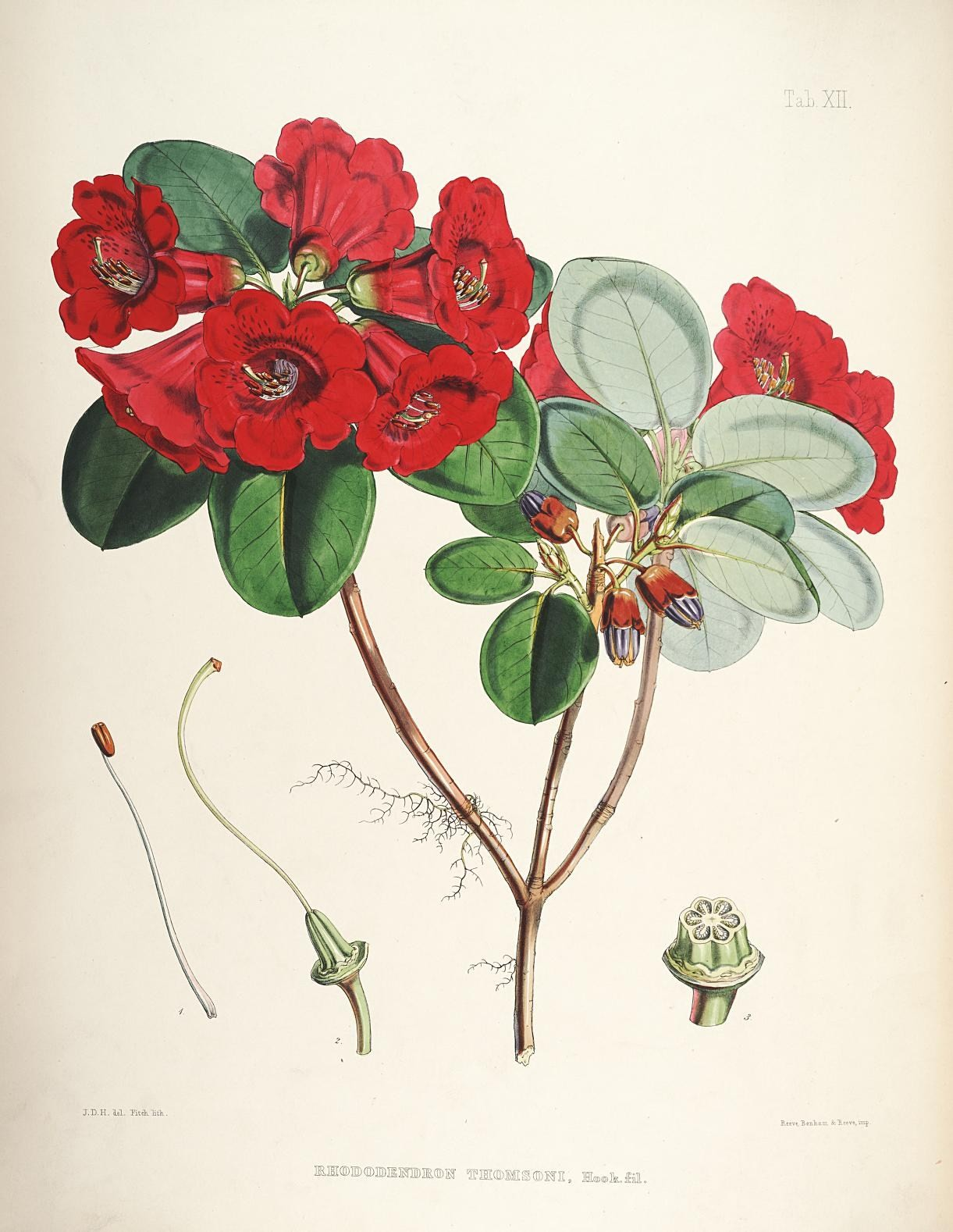 Tal^XII. J-D.H. M. I'itEh.litK, Hetve^BeaKam fclteevc.iit^ ^ s. is®®ik.a